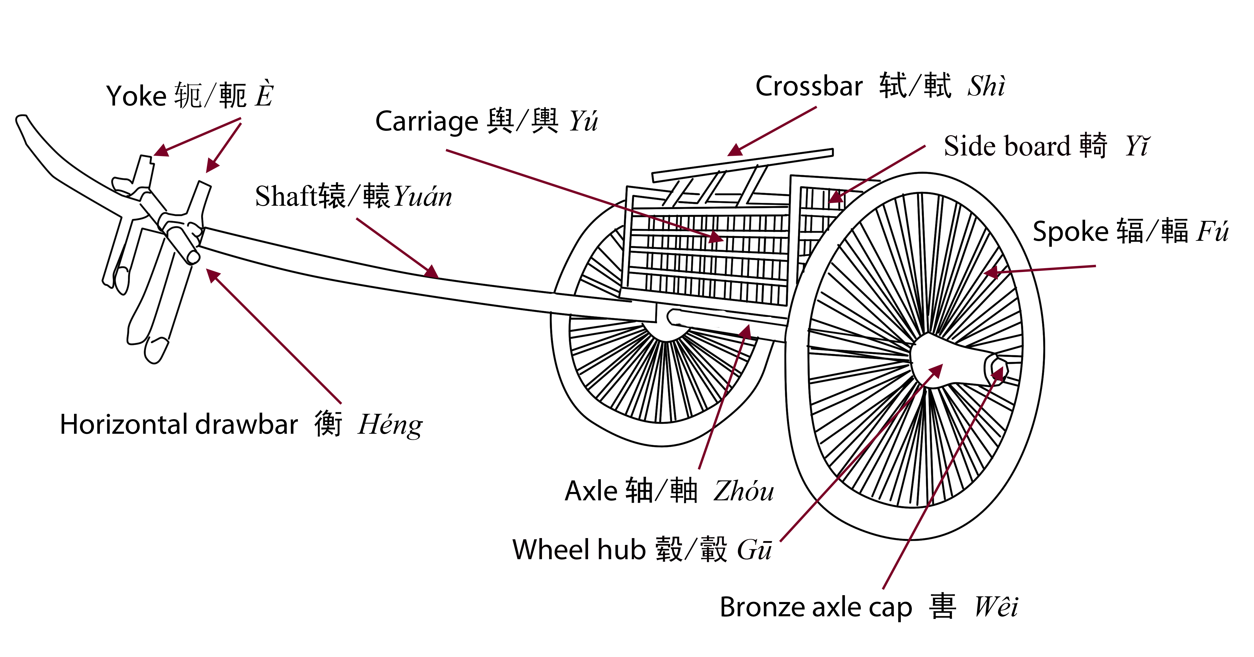 Pre Han Dynasty two wheeled Chinese Chariot